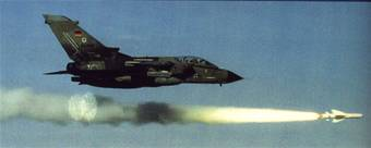 A German Marine (Navy, Naval Air Wing 2) Panavia Tornado IDS launches a Kormoran air-to-surface missile during an exercise in the USA.